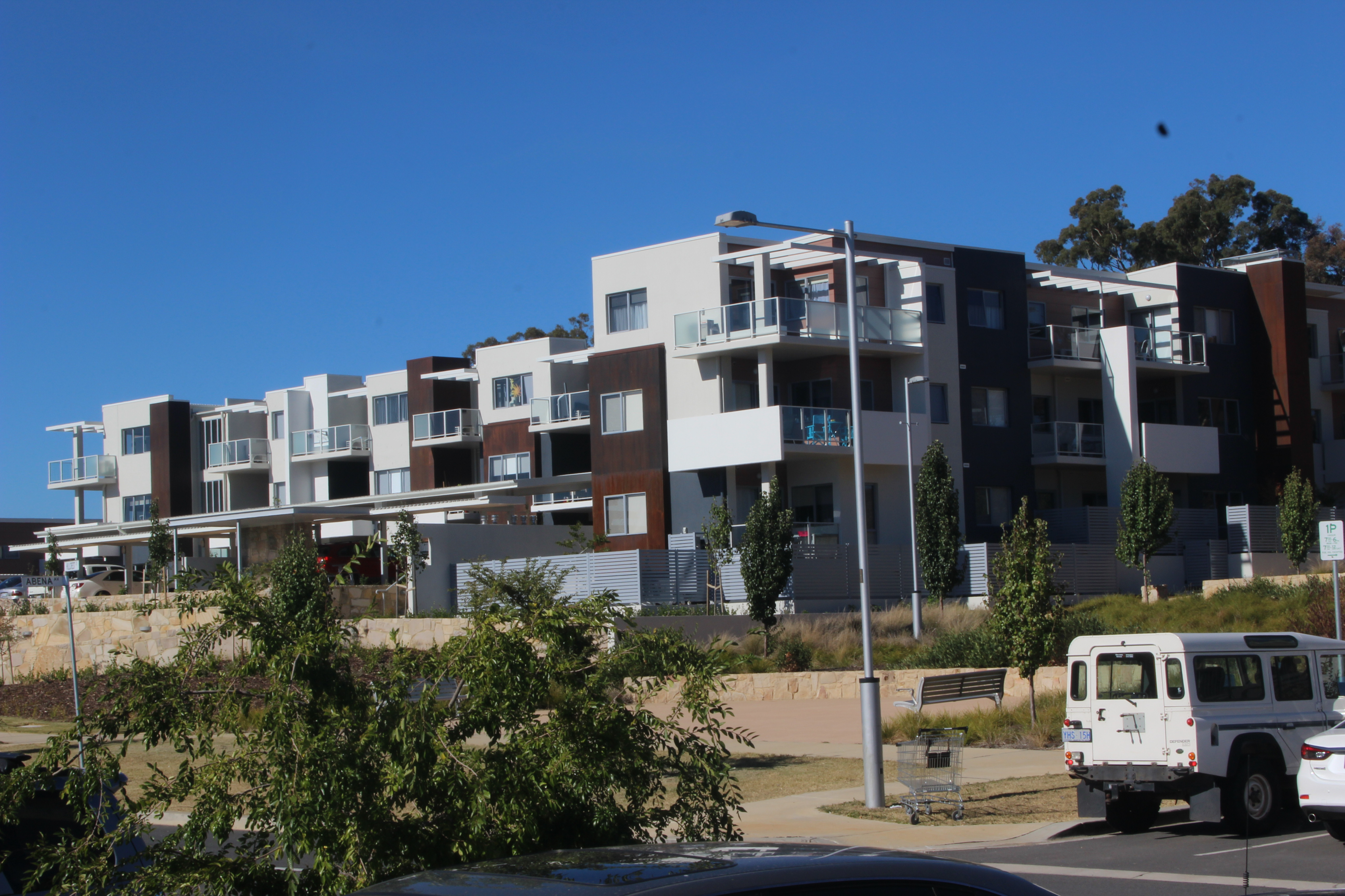 Crace